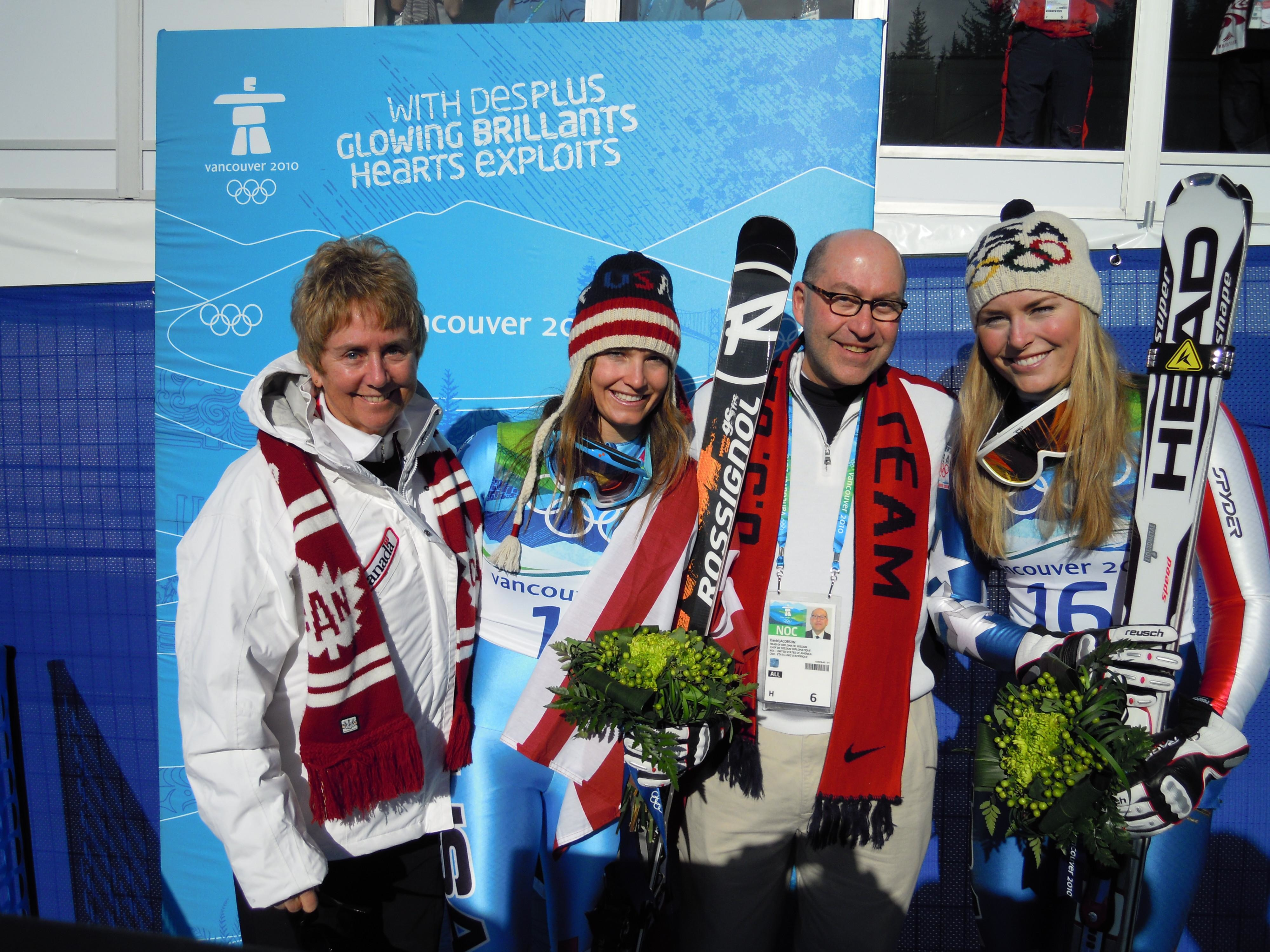 Ambassador Jacobson with the US medalists and Senator Nancy Greene, 1968 women's alpine gold medal winner